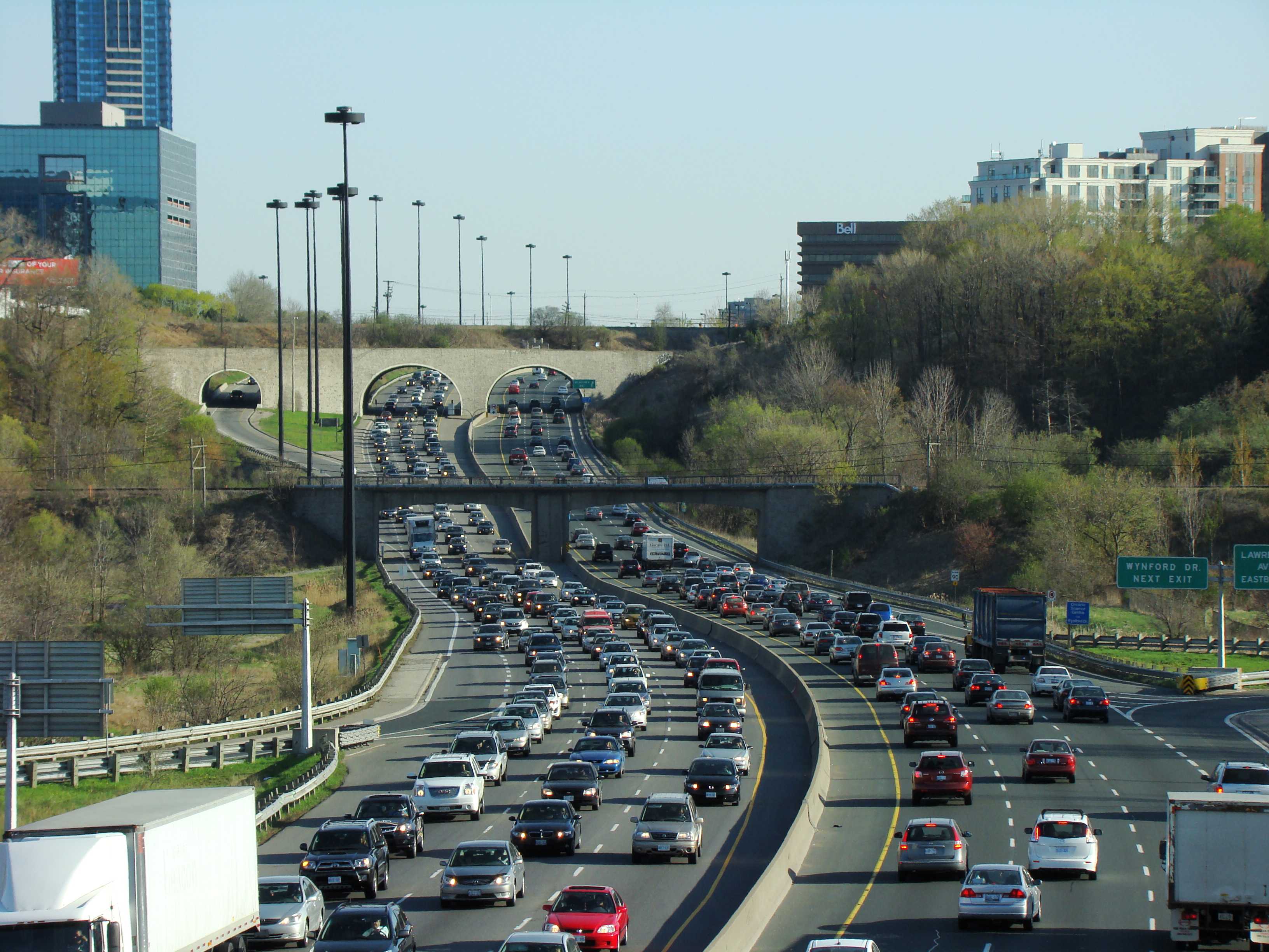 Congestion on the Don Valley Parkway in Toronto, Canada